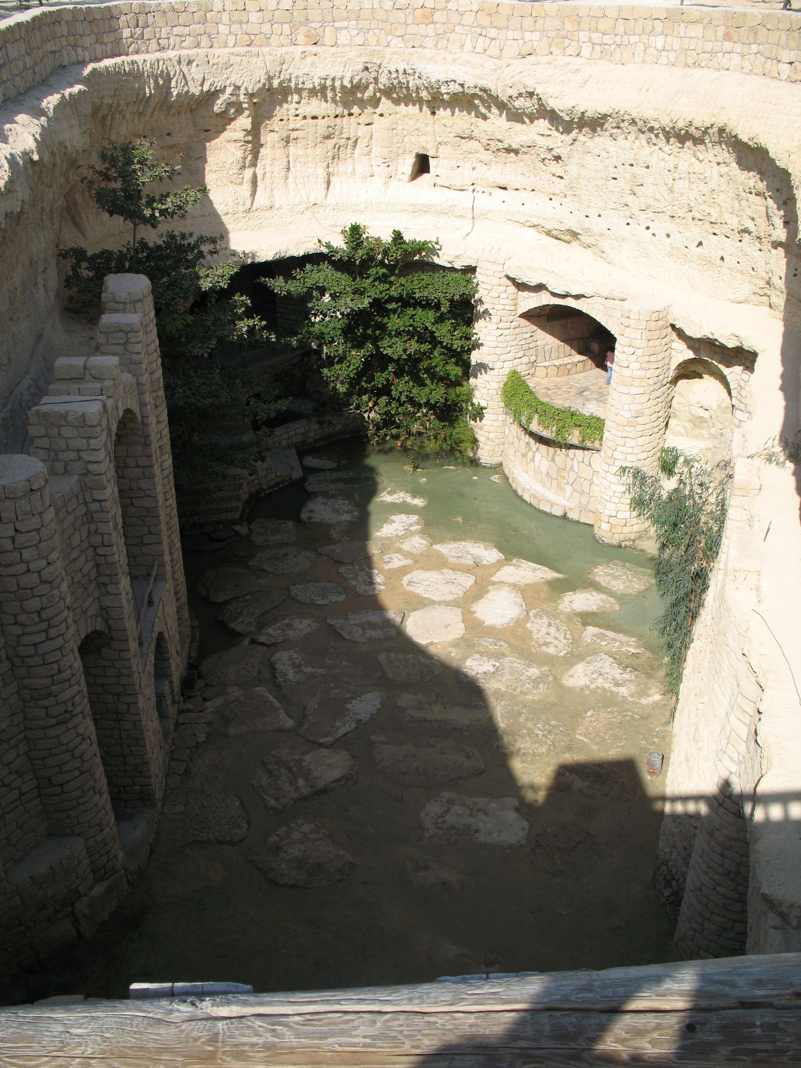 Kish, Underground City